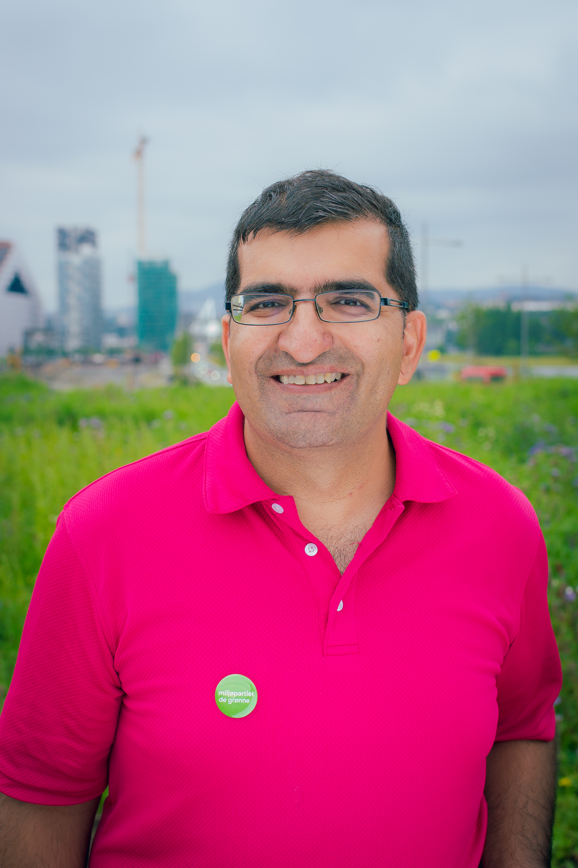 Shoaib Sultan, Miljøpartiet De Grønne, Oslo. Foto: Monica Løvdahl